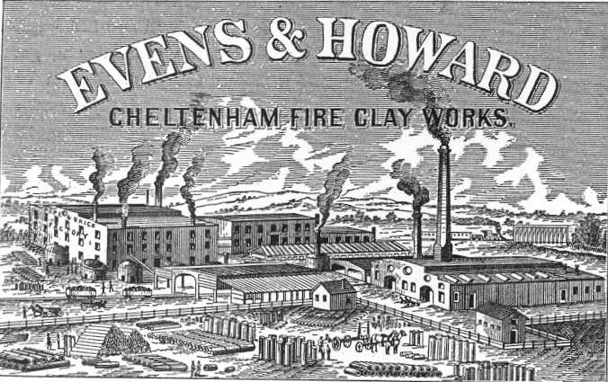 This is a sketch made (most likely) prior to 1904, put in a book, and the person writing the book did not know the name of the artist. It is a sketch of the Evens & Howard Fire Brick Company in Saint Louis, Missouri, prior to 1904. It appeared in a book entitled "The Clayworking Plants of St. Louis". Source is Here. Questions? Ask me at Wikipedia at User talk:Tomwsulcer.